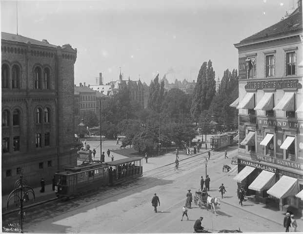 Trams at Stortinget in Oslo, Norway in 1912